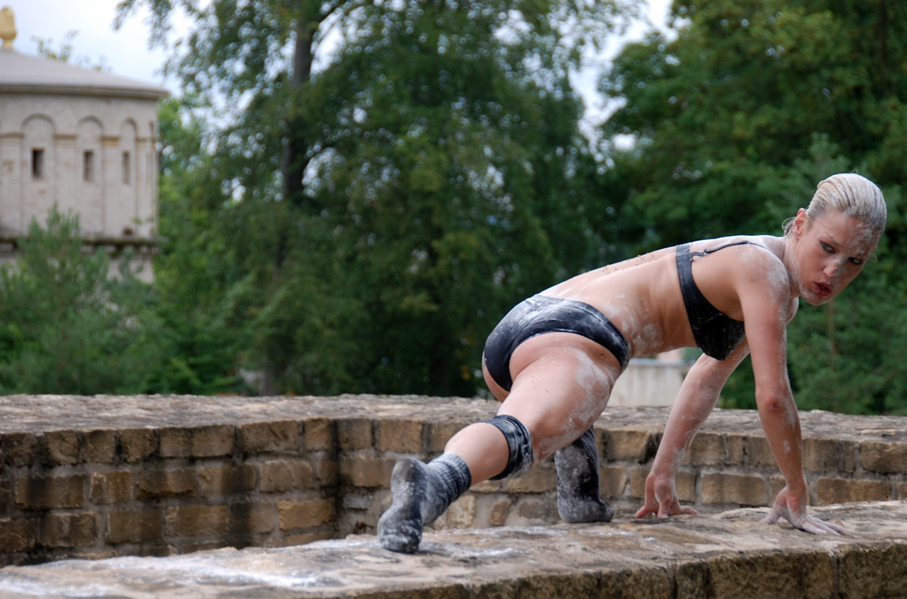 Luxembourg dancer and choreograph Sylvia Camarda performing at Park Dräi Eechelen in Luxembourg City.